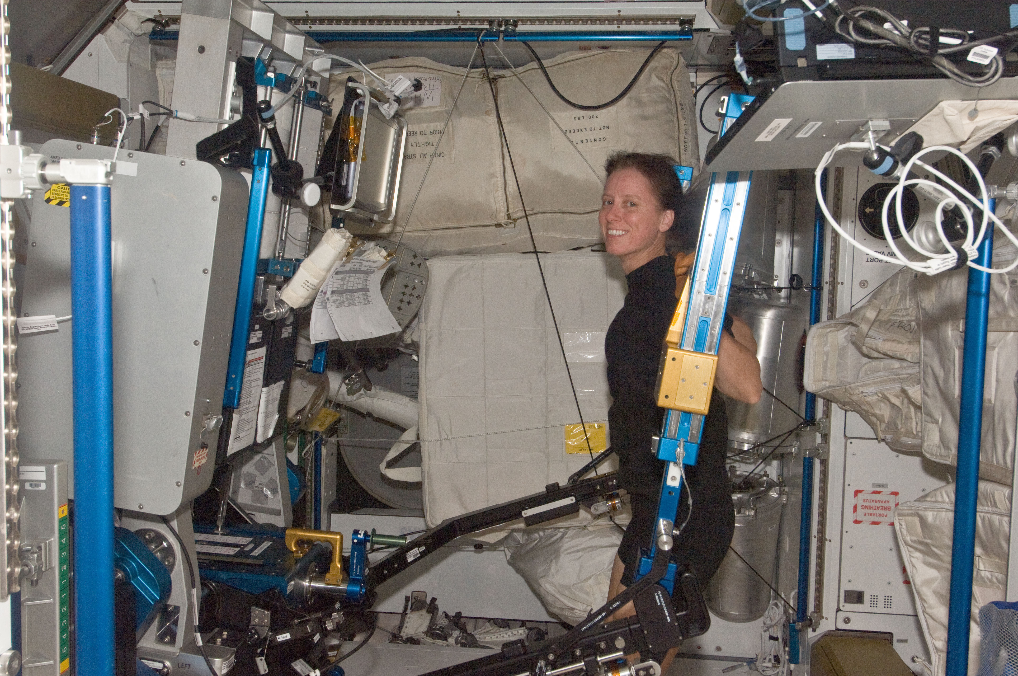 NASA astronaut Shannon Walker, Expedition 24 flight engineer, exercises using the advanced Resistive Exercise Device (aRED) in the Tranquility node of the International Space Station.